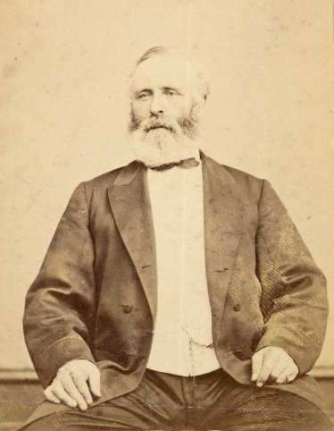 John Martin, a New Zealand runholder, property speculator, and politician